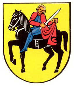 Coat of arms of Category:Jonschwil, canton of St. Gallen, Switzerland